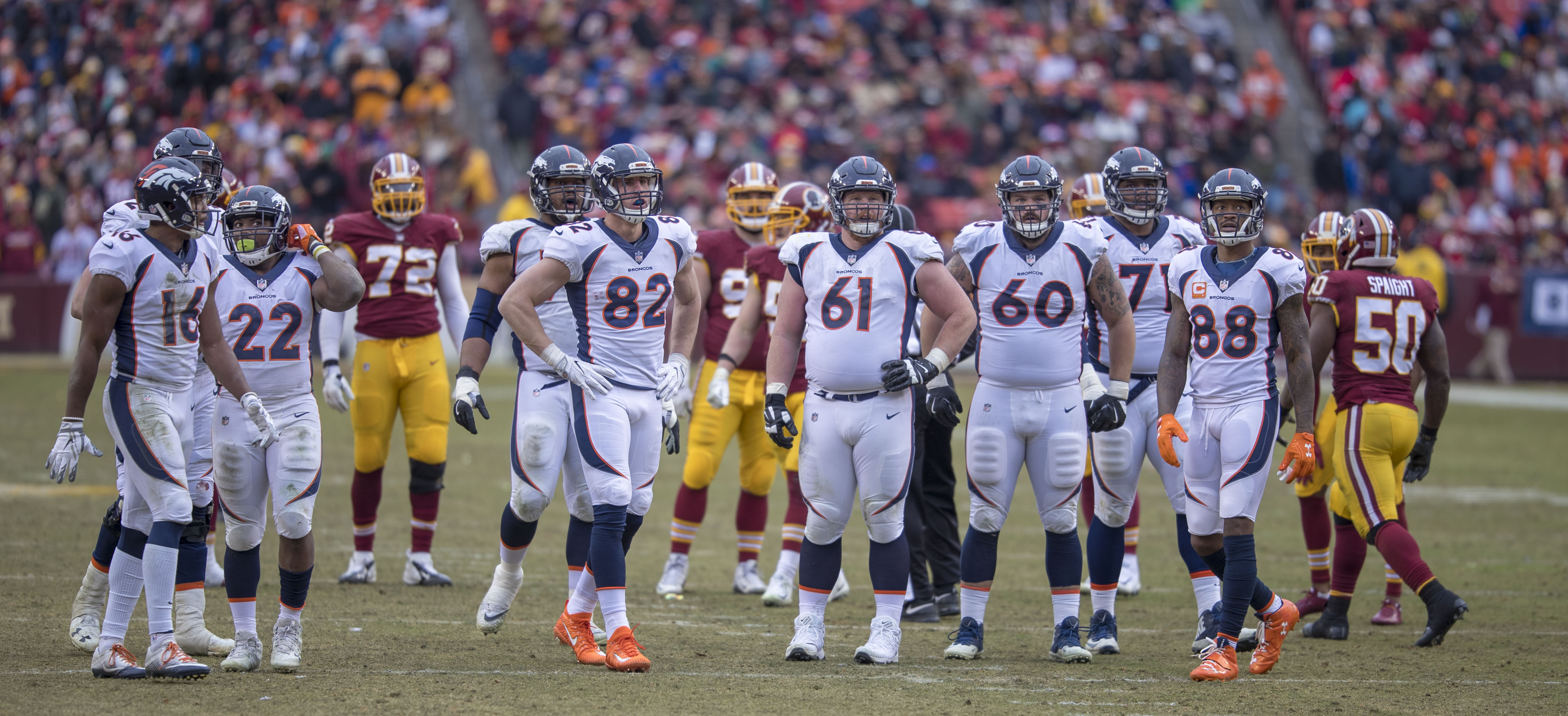 Broncos at Redskins 12/24/17